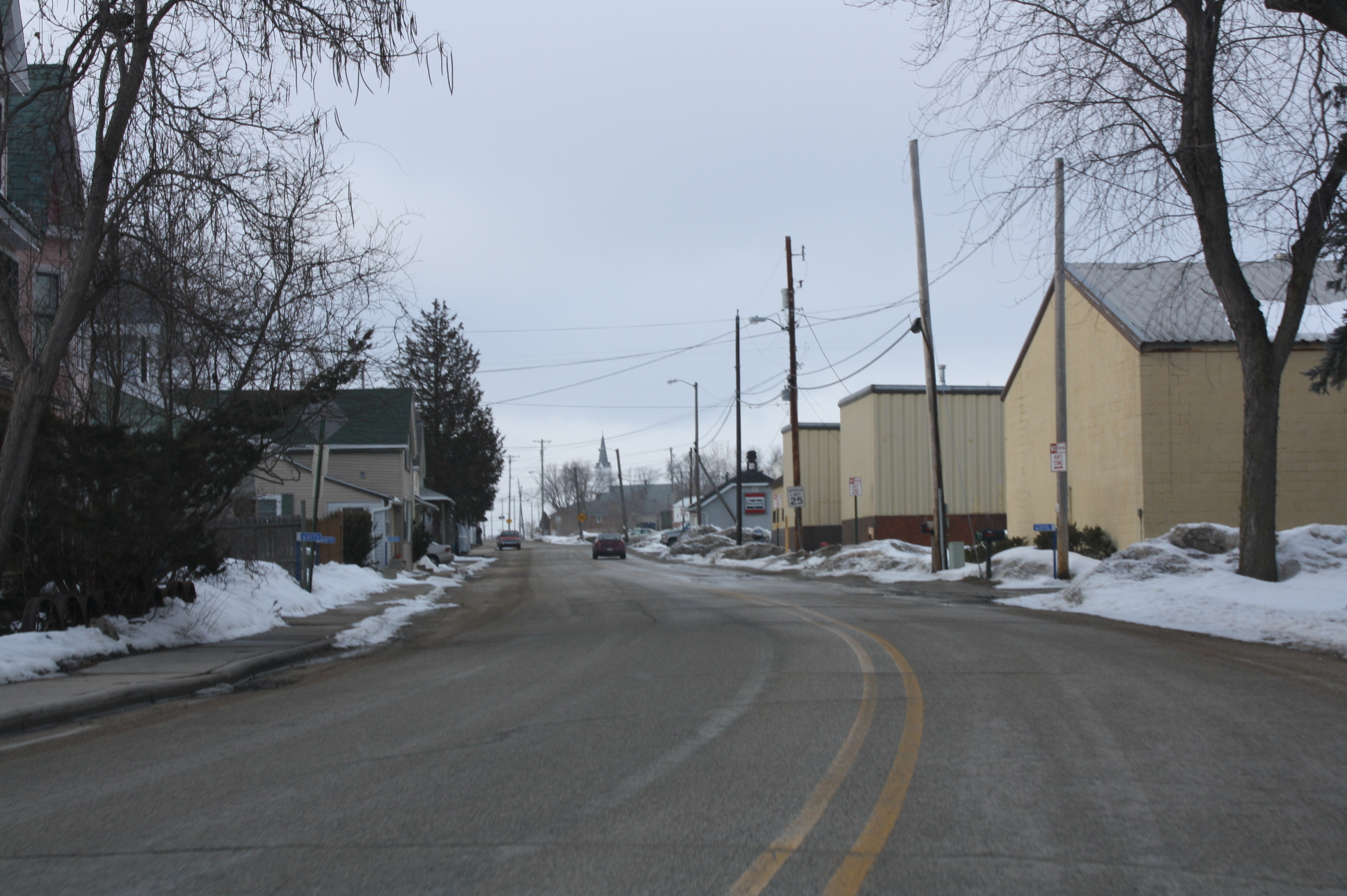 Looking north at the unincorporated community of Woodland, Wisconsin).